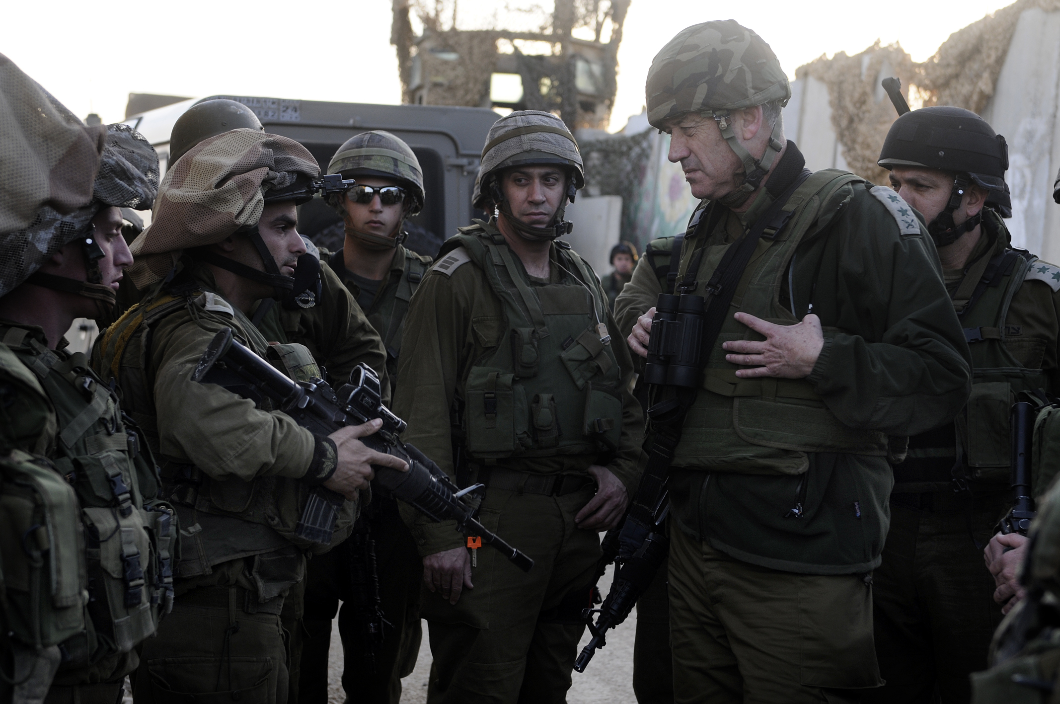 February 22, 2011. The Chief of the General Staff, Lt. Gen. Benny Gantz, visited the Gaza Division today. During his visit, the Chief of Staff heard briefings from the GOC Southern Command, Maj. Gen. Tal Russo, and the Commander of the Gaza Division, Brig. Gen. Yossi Bachar, and talked with soldiers serving in the Division. הרמטכ"ל, רב אלוף בני גנץ ביקר היום (ג') בגזרת אוגדת עזה. במהלך הביקור שמע הרמטכ"ל סקירות מפי מפקד הפיקוד, אלוף טל רוסו ומפקד אוגדת עזה תת אלוף יוסי בכר ושוחח עם חיילים המוצבים בגזרה